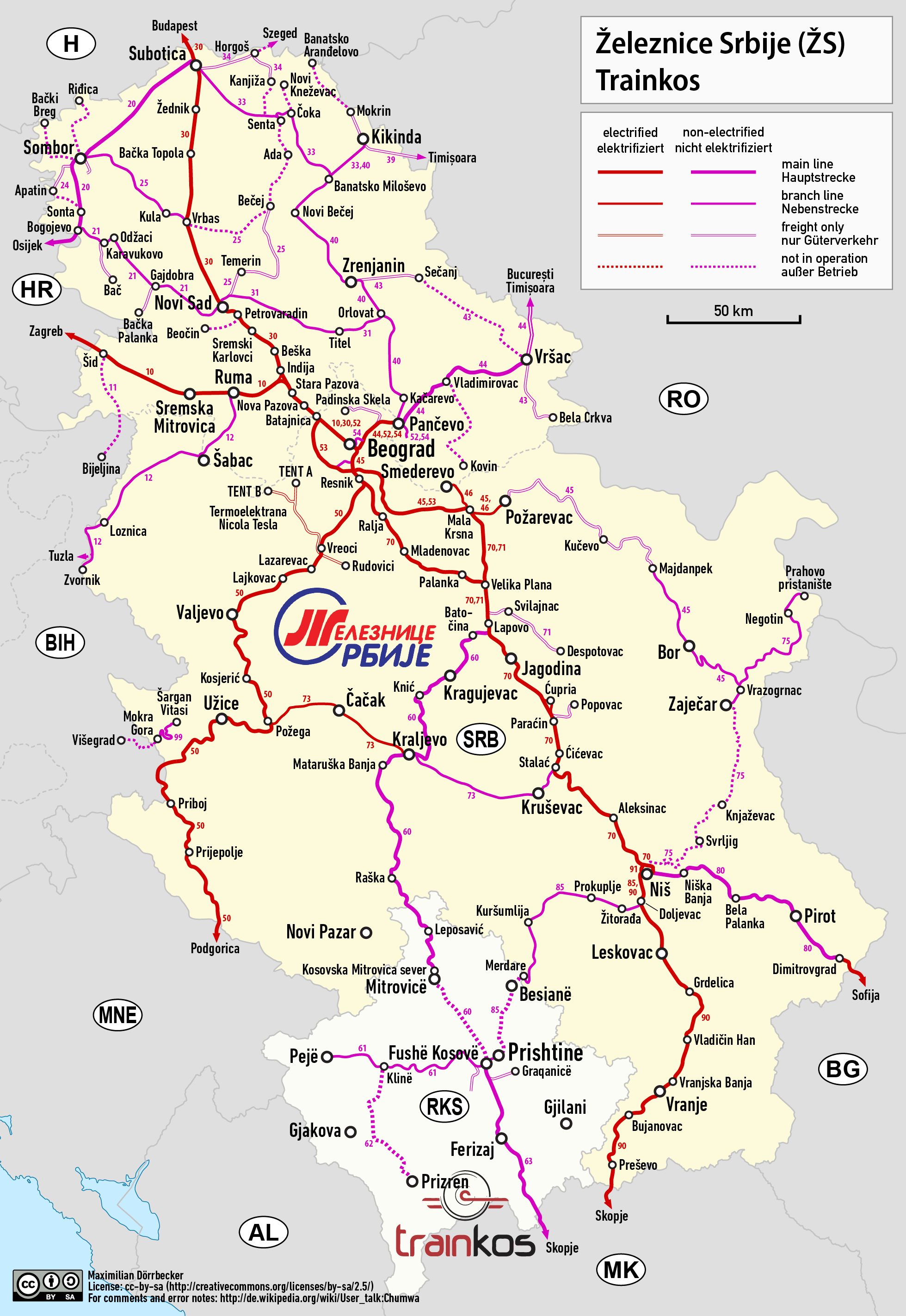 Railway map of Serbia and Kosovo